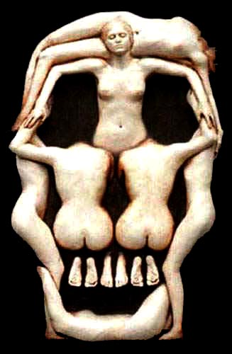 A life casting in the style of the Dali Skull